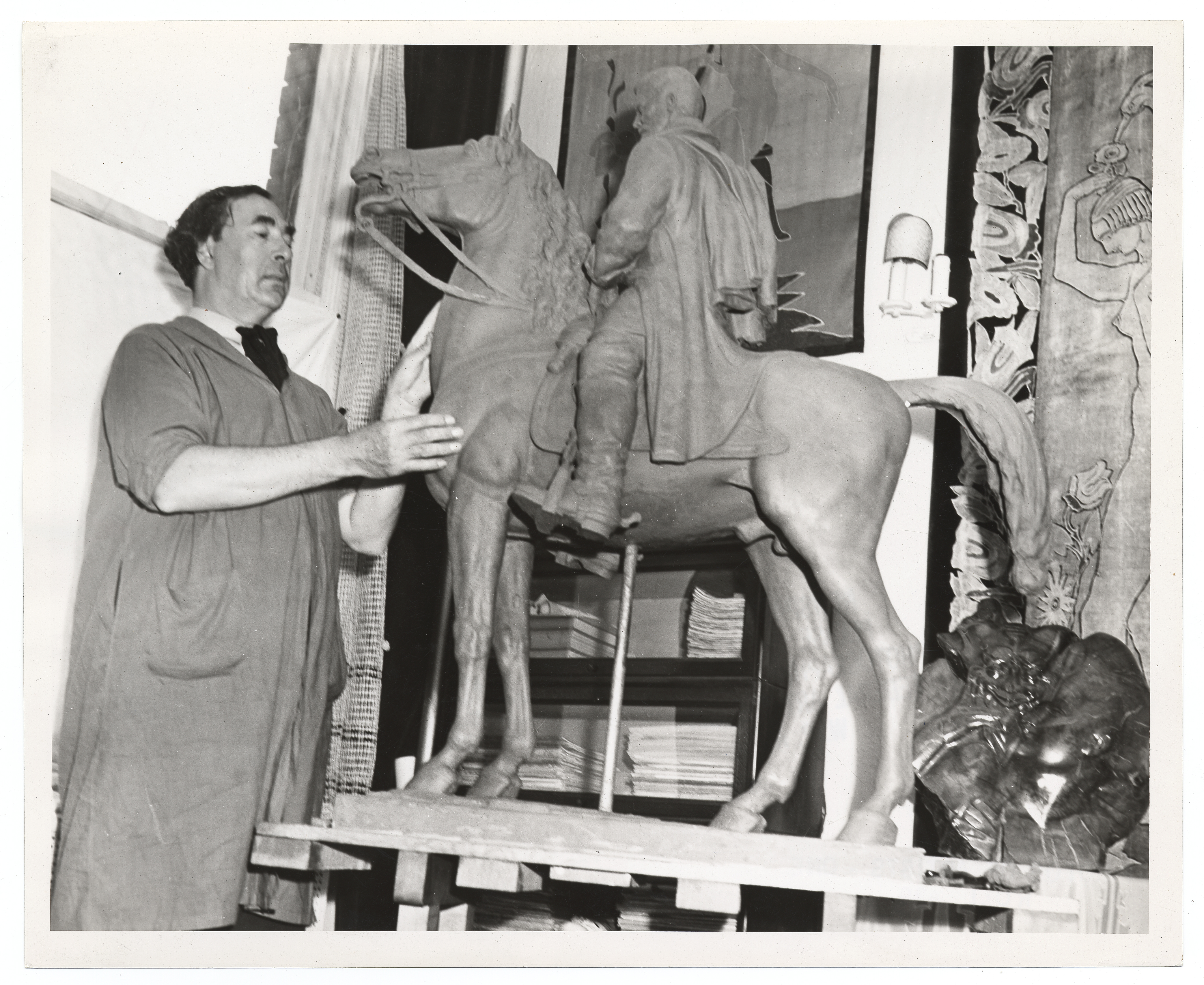 Identification on verso (handwritten and stamped): Alex Finta Studio; Location: 1 Sheridan Ave; (sculpture); Negative No: 3967-1; Date: 6/14/39; Photographer: Herman